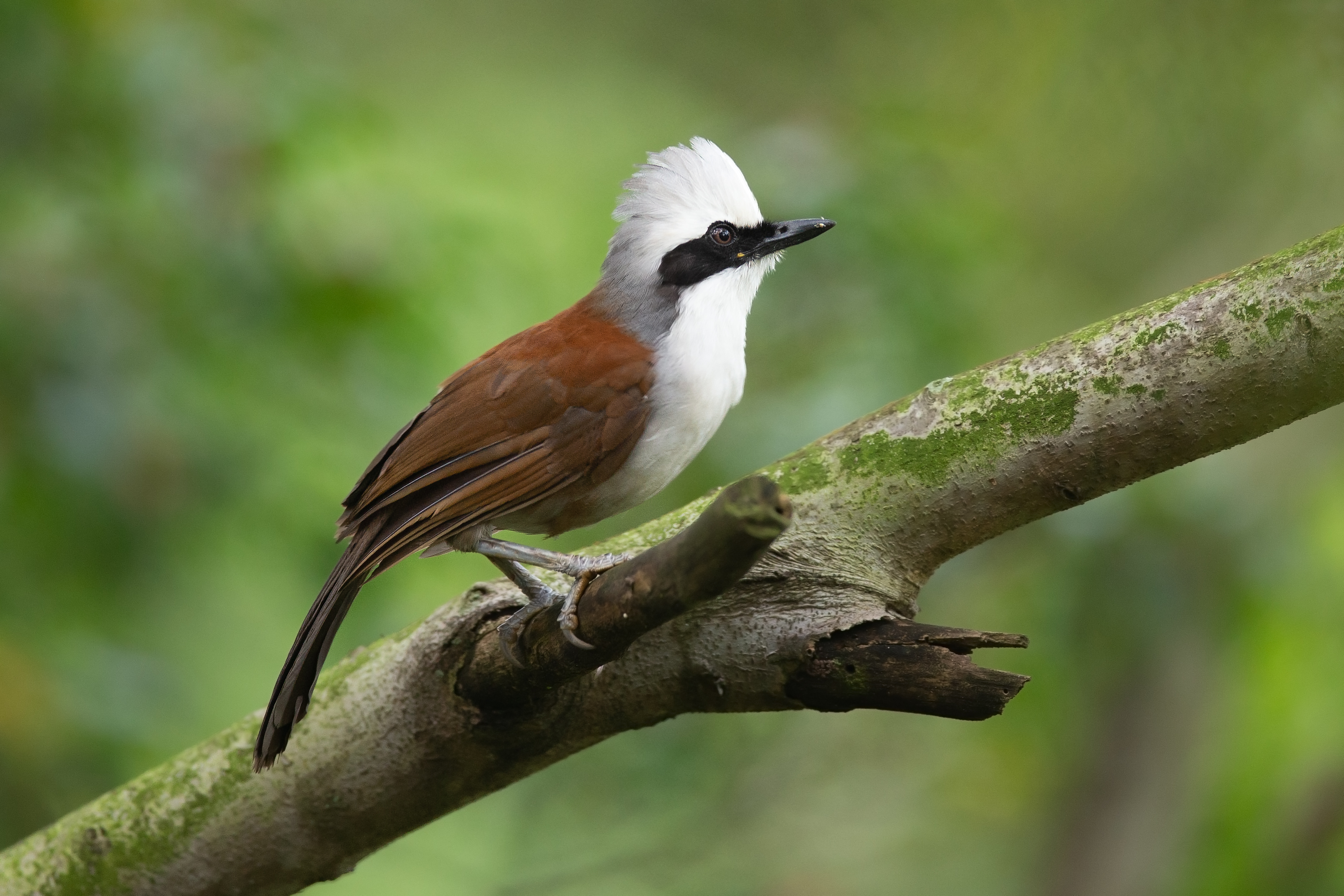 White-crested Laughingthrush (Garrulax leucolophus), Kent Ridge Park, Singapore